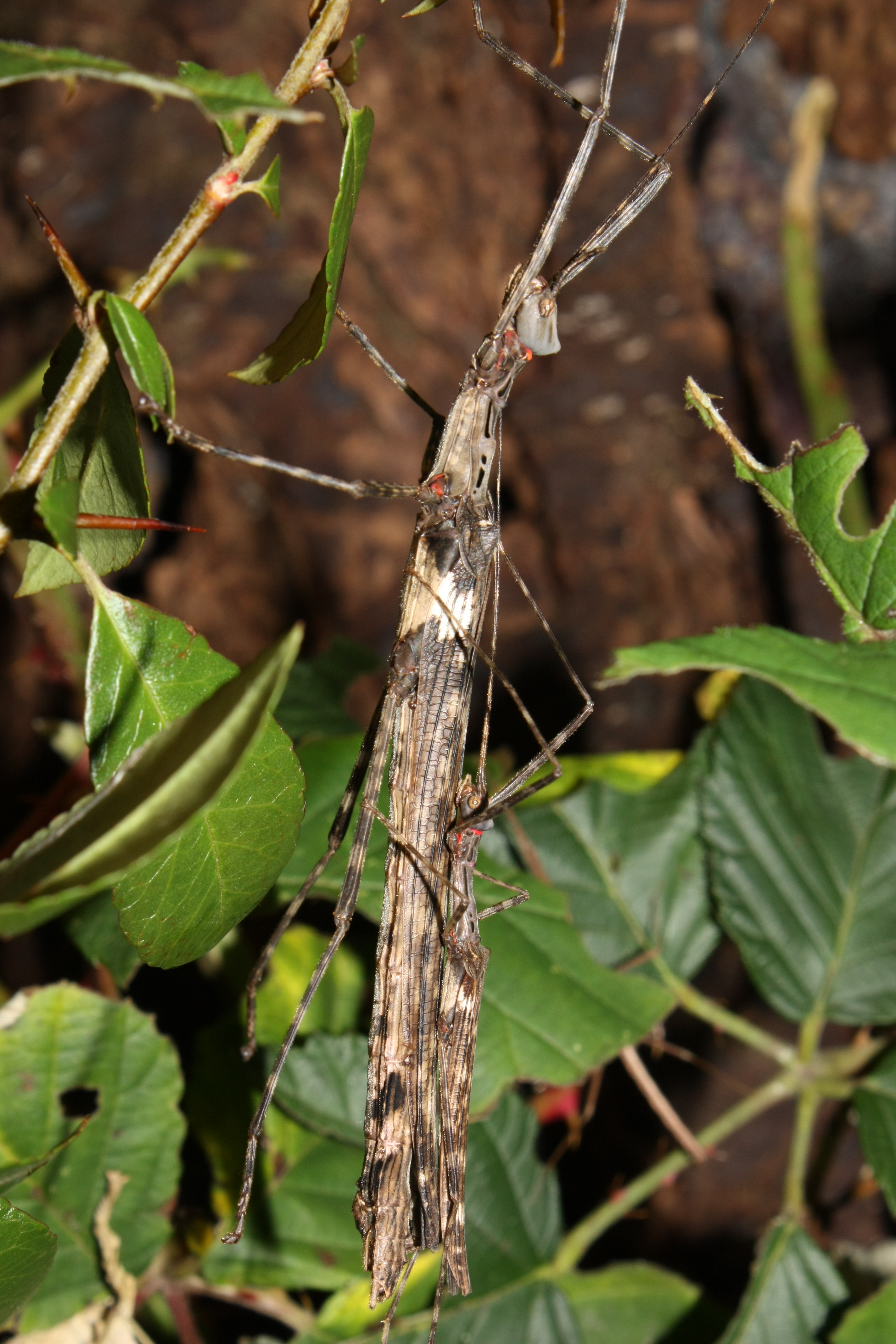 Pair of Trachythorax maculicollis